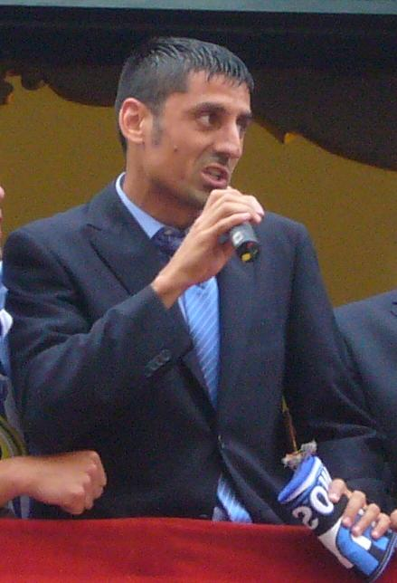 Danciulescu with microphone in hand, in the Alicante town hall after the rise of Hércules C. F. to First division in 2009/10 season.